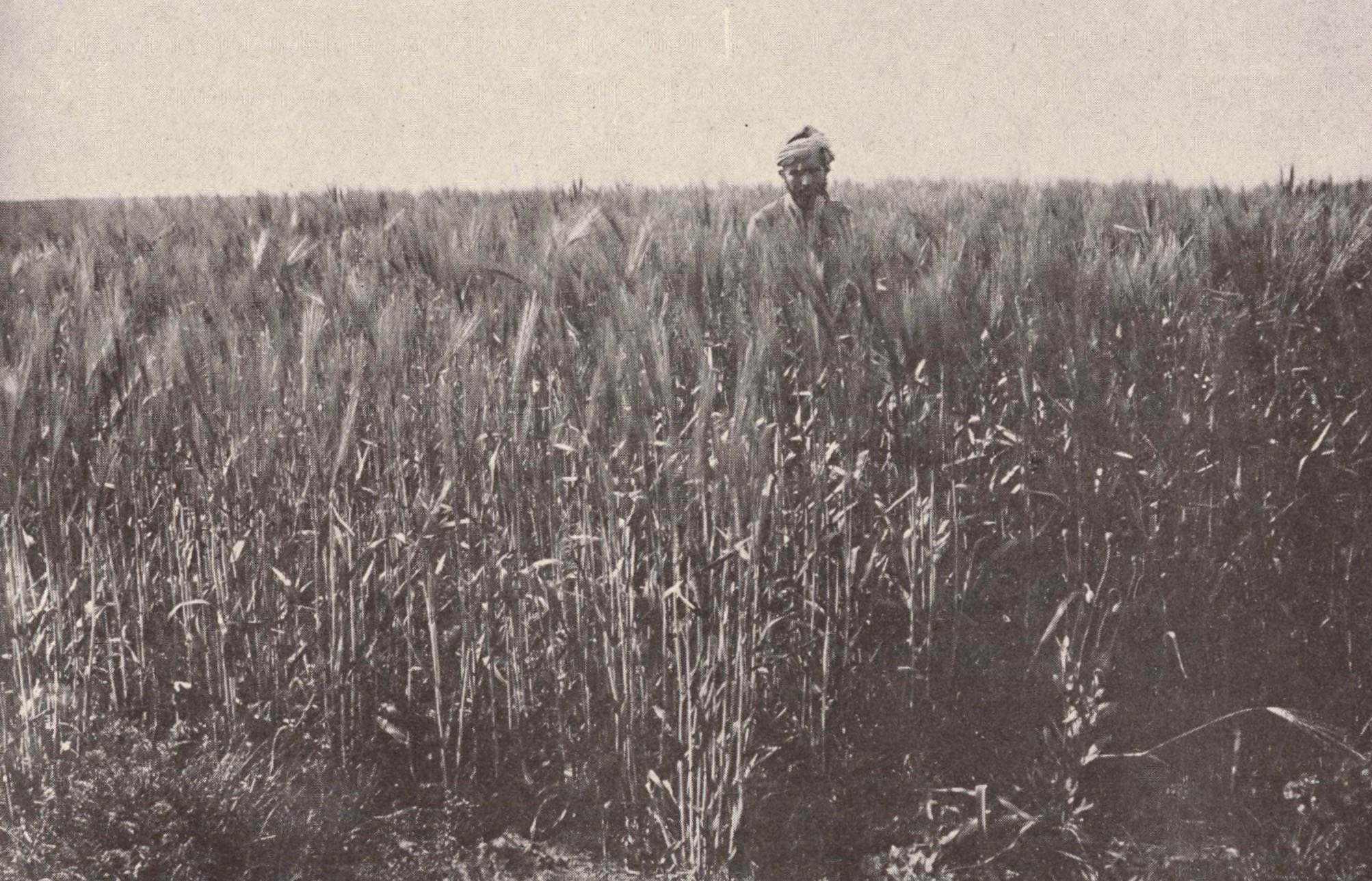 A farmer in a field of barley in the Moroccan Chaouia, image published in the monthly illustrated magazine France-Maroc, dated August 15, 1917